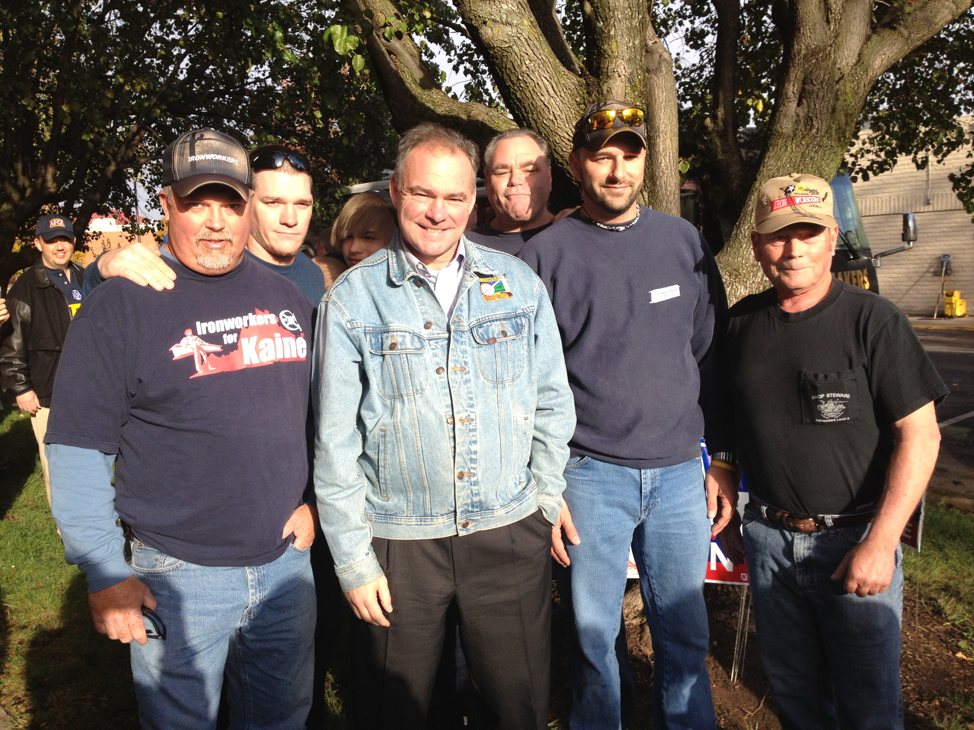 VA: Annandale VA Labor Walk